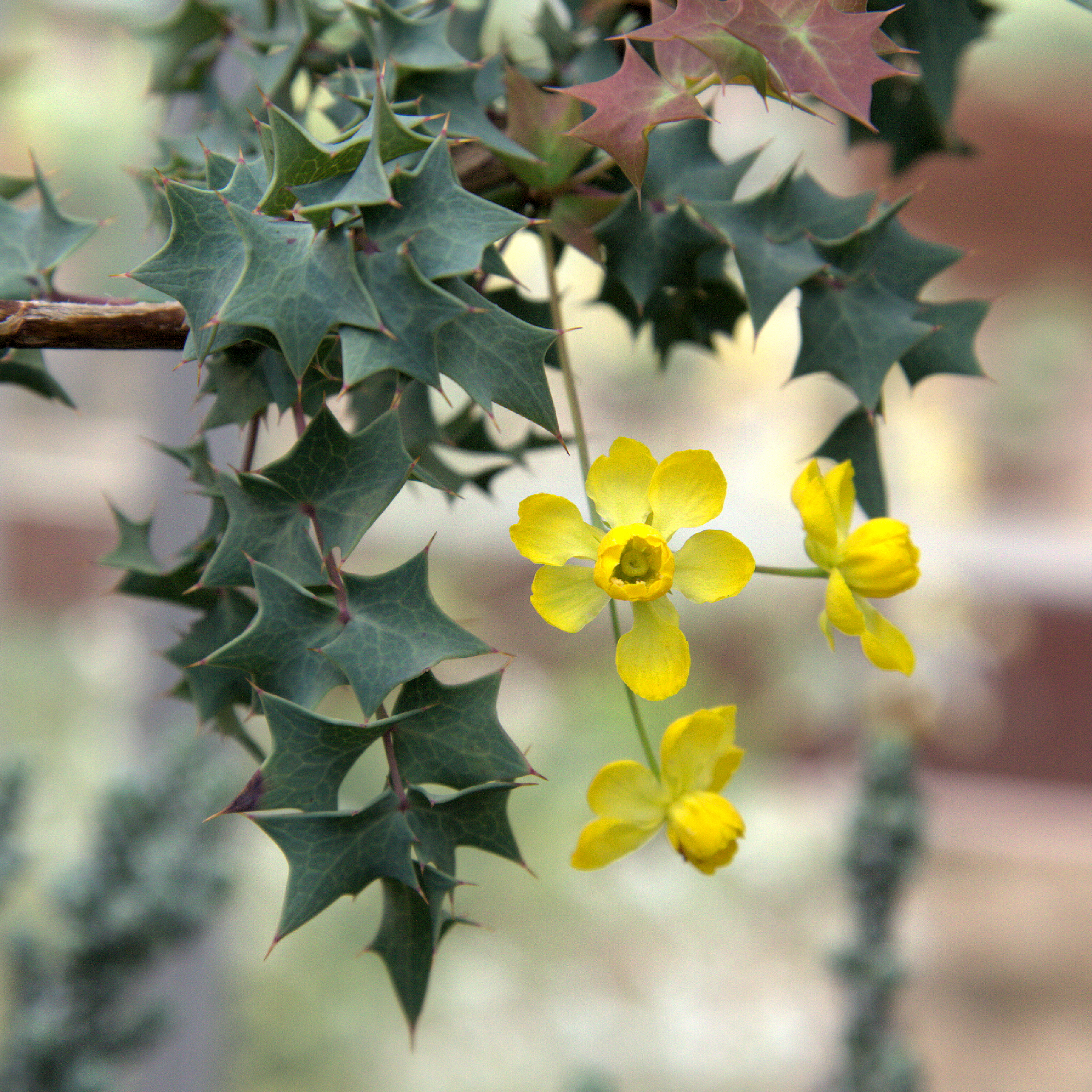 Mahonia fremontii